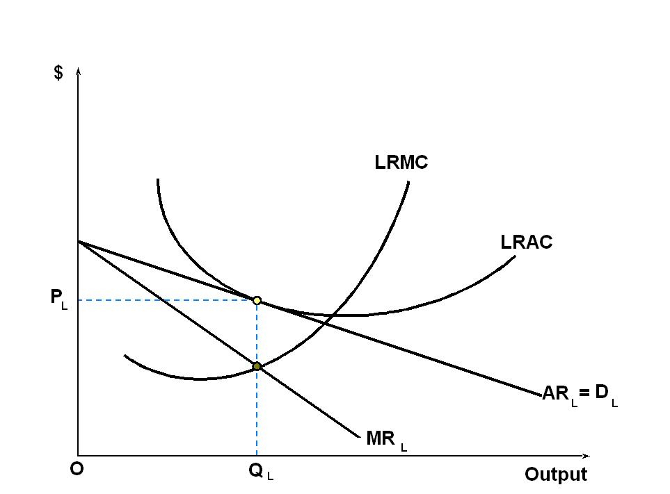 Long-run equilibrium of a firm under monopolistic competition, demonstrating that it makes only normal profit.